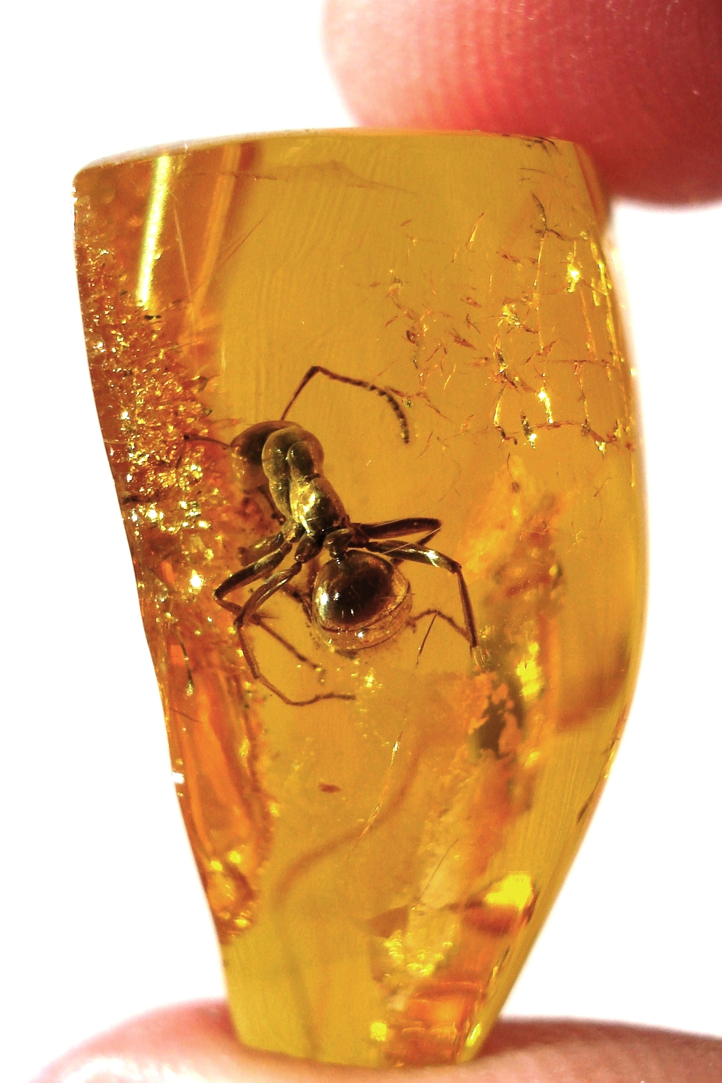 Baltic amber inclusions - Ant - About 7 mm long. Alternate amber with fingers cropped slightly, keeping a 2:3 aspect ratio.